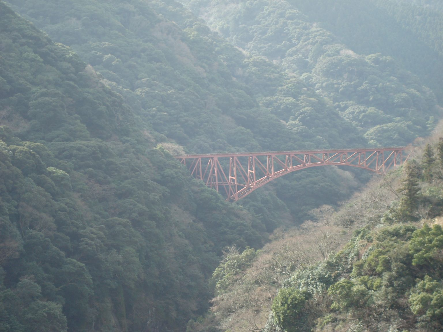 Daiichi-Shirakawa bridge of Minami-Aso railway crossing Aso Kitamuki-dani old growth forest at Ozu town, Kumamoto, Japan.